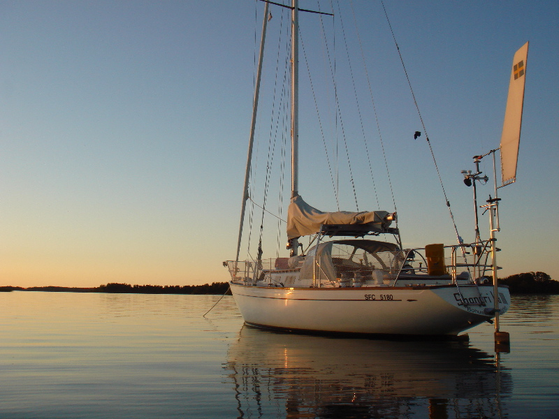 Image of OE 36 yacht